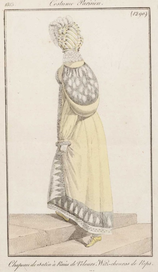 1813 fashion plate from the Costume Parisien, showing a silk satin bonnet with velvet trimming and a witzchoura style pelisse/cloak with sleeves, fur lining and hood.